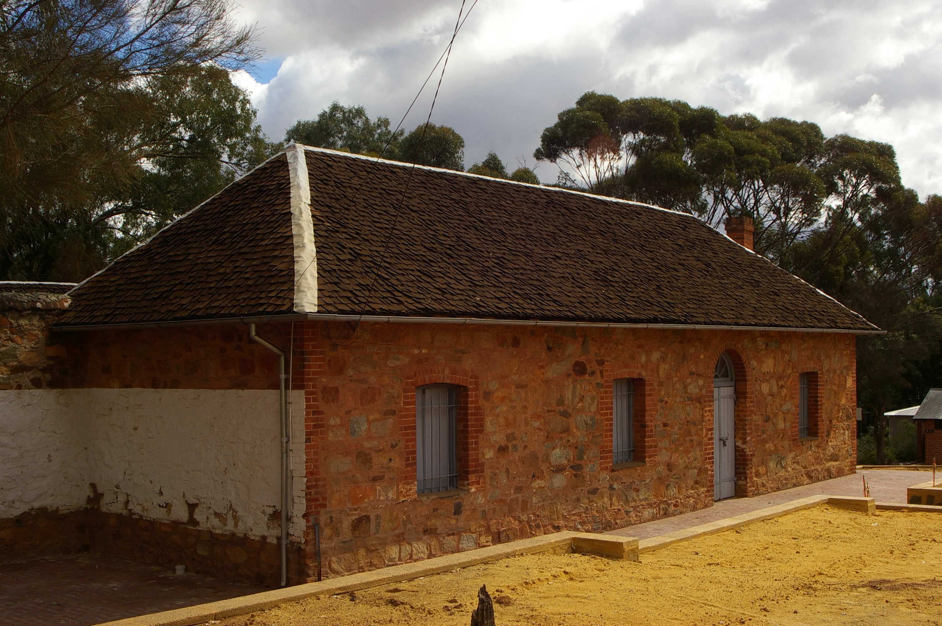 front view of the Old gaol, now museum in Toodyay built 1864-65